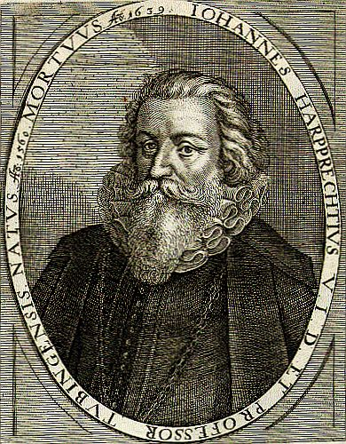 Portrait of Johannes Christoph Harpprecht (1560-1639)